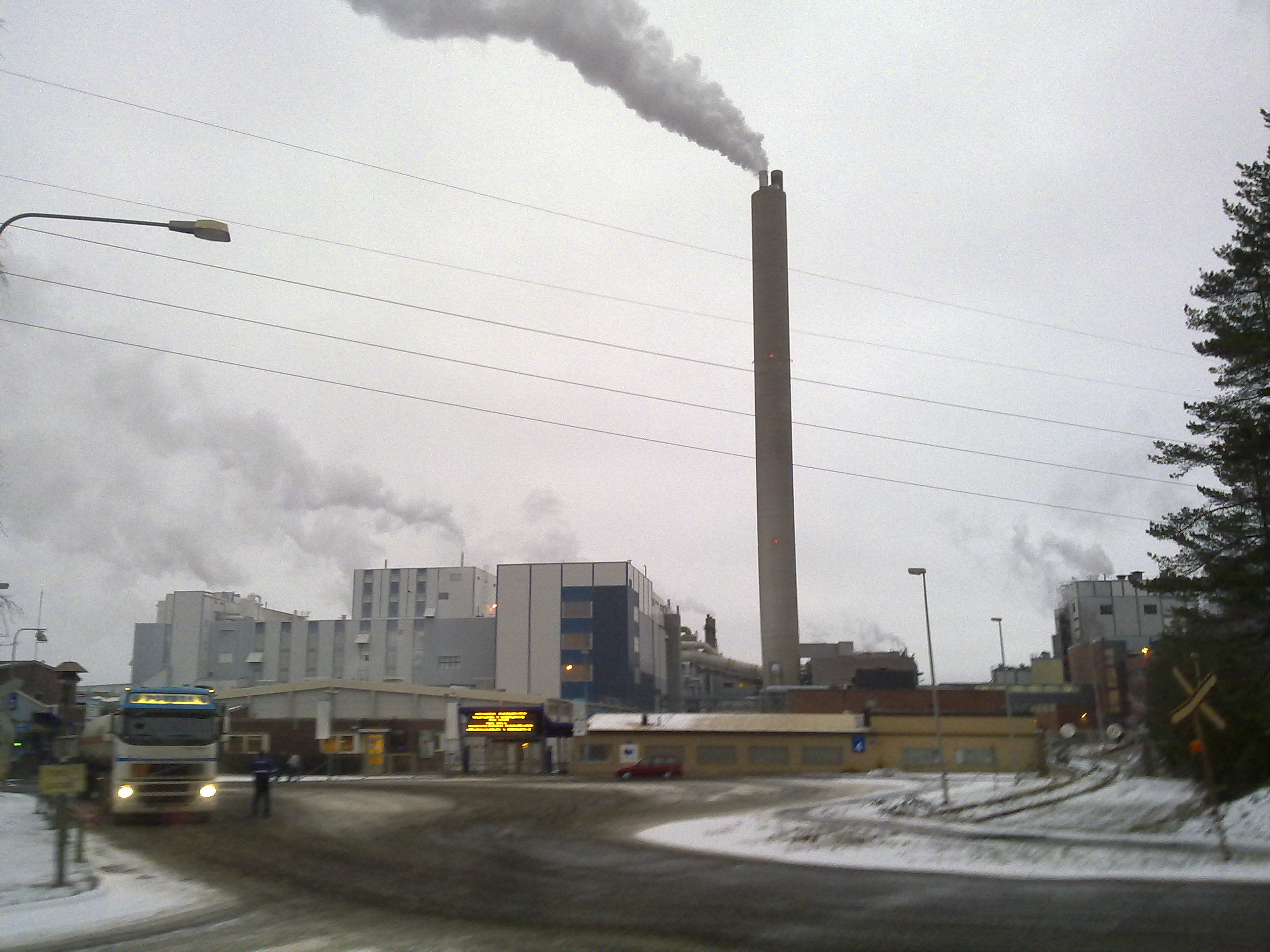 Sachtleben Picments titanium dioxide-factory in Kaanaa, Pori, Finland